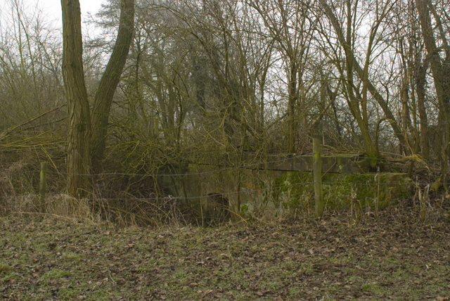 Small Canal Viaduct